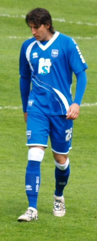 Photograph of Francisco Sandaza